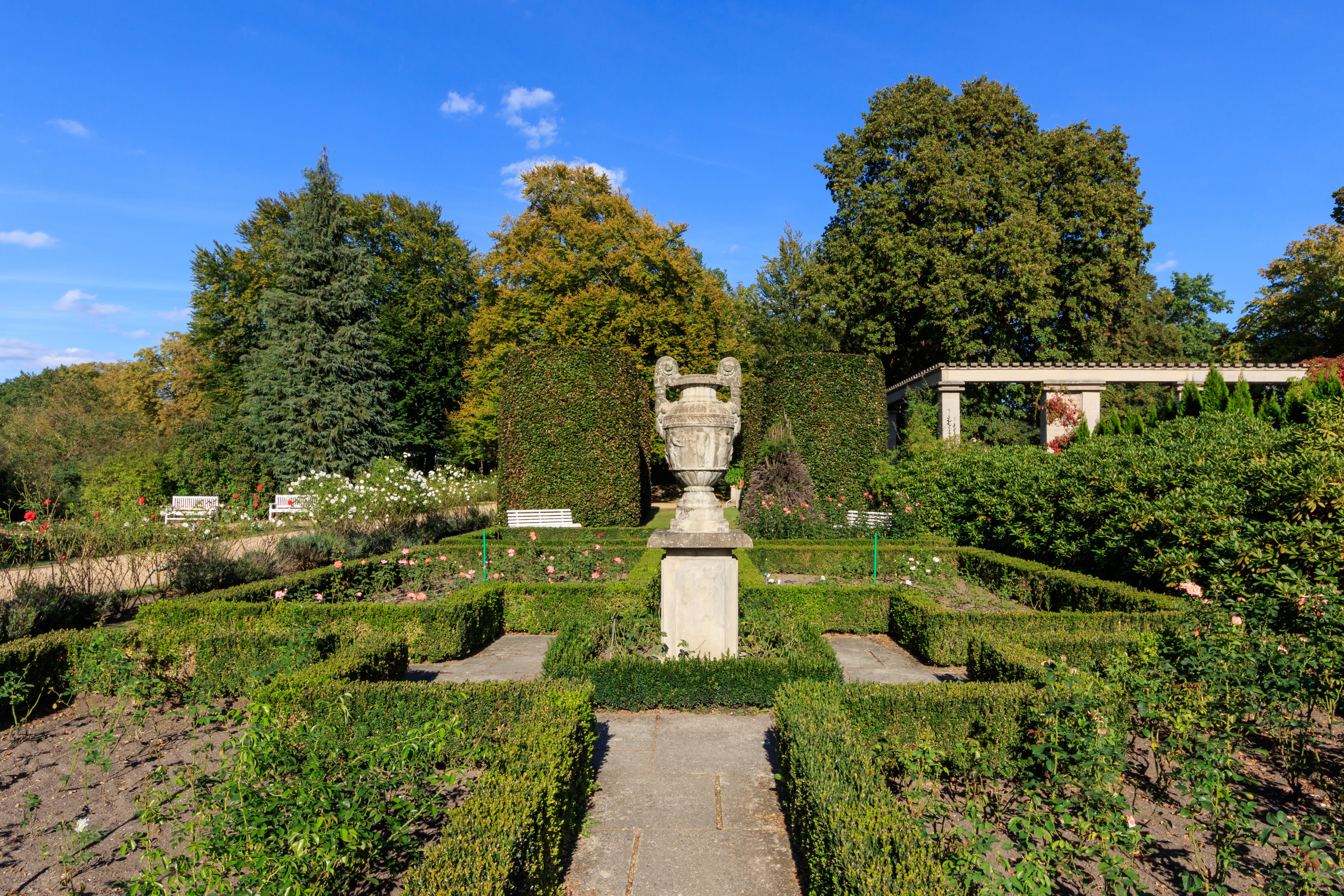 Rose Garden in Forst (Lausitz), Brandenburg, Germany; the Teschendoff garden norteastward